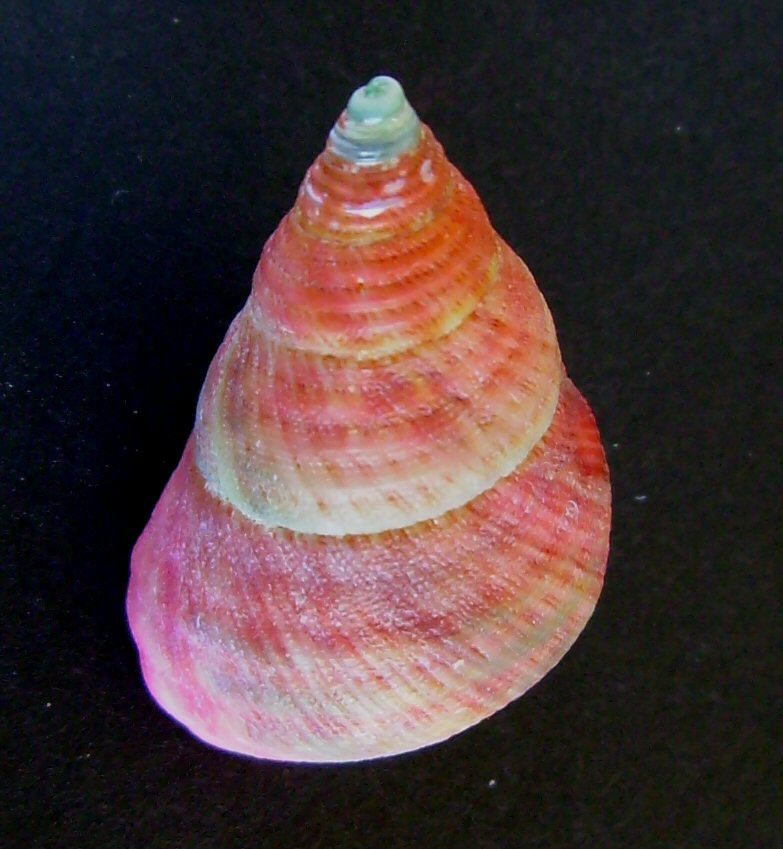 Cantharidus opalus opalus from Coromandel, New Zealand. This work has been released into the public domain by its author, Graham Bould. This applies worldwide.In some countries this may not be legally possible; if so:Graham Bould grants anyone the right to use this work for any purpose, without any conditions, unless such conditions are required by law.